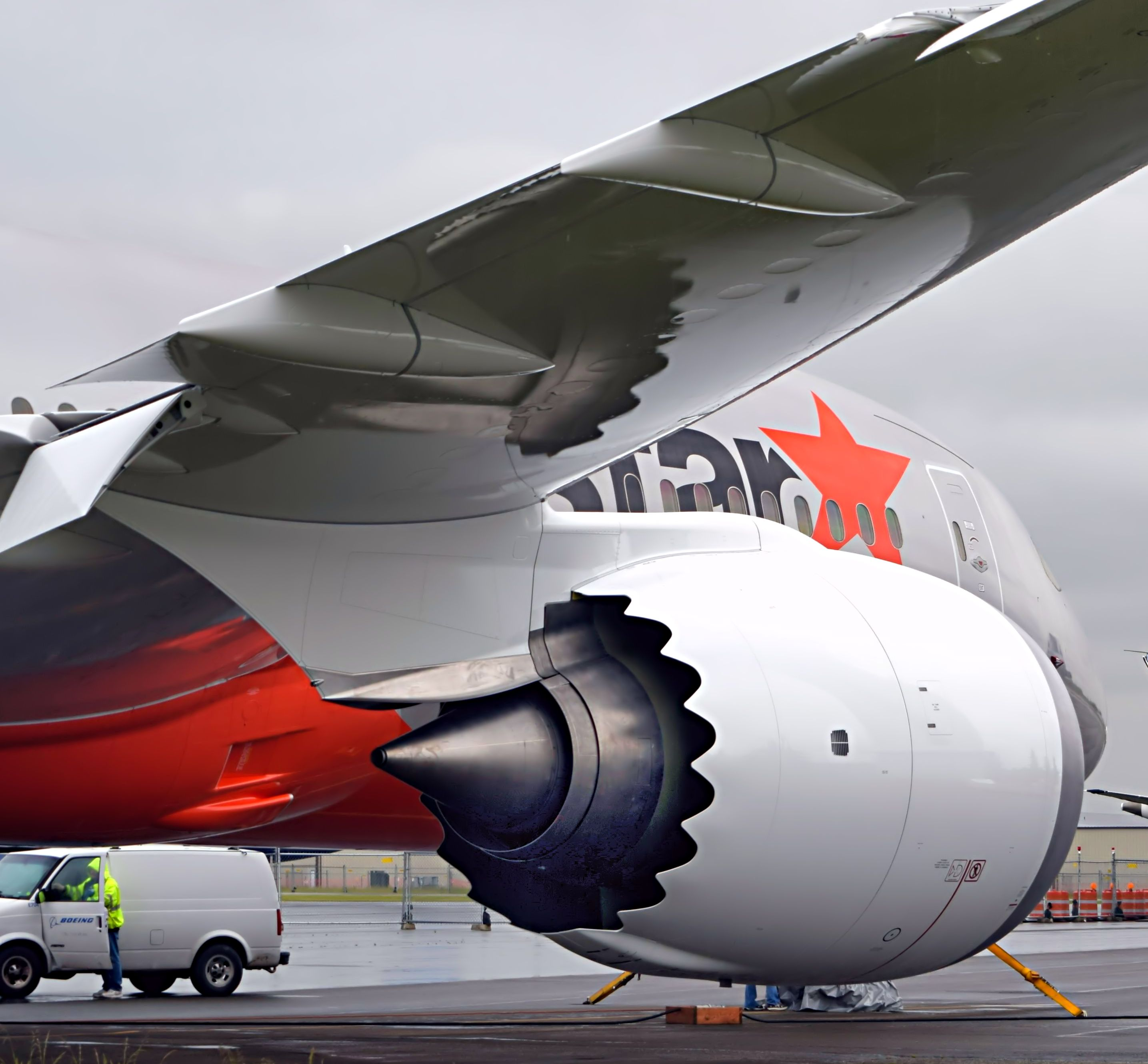 General Electric GEnx-1B intalled on a Jetstar Boeing 787